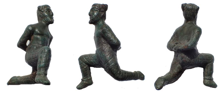 Roman Bronze Statuette of a Suebi captive. First to 3rd century AD.